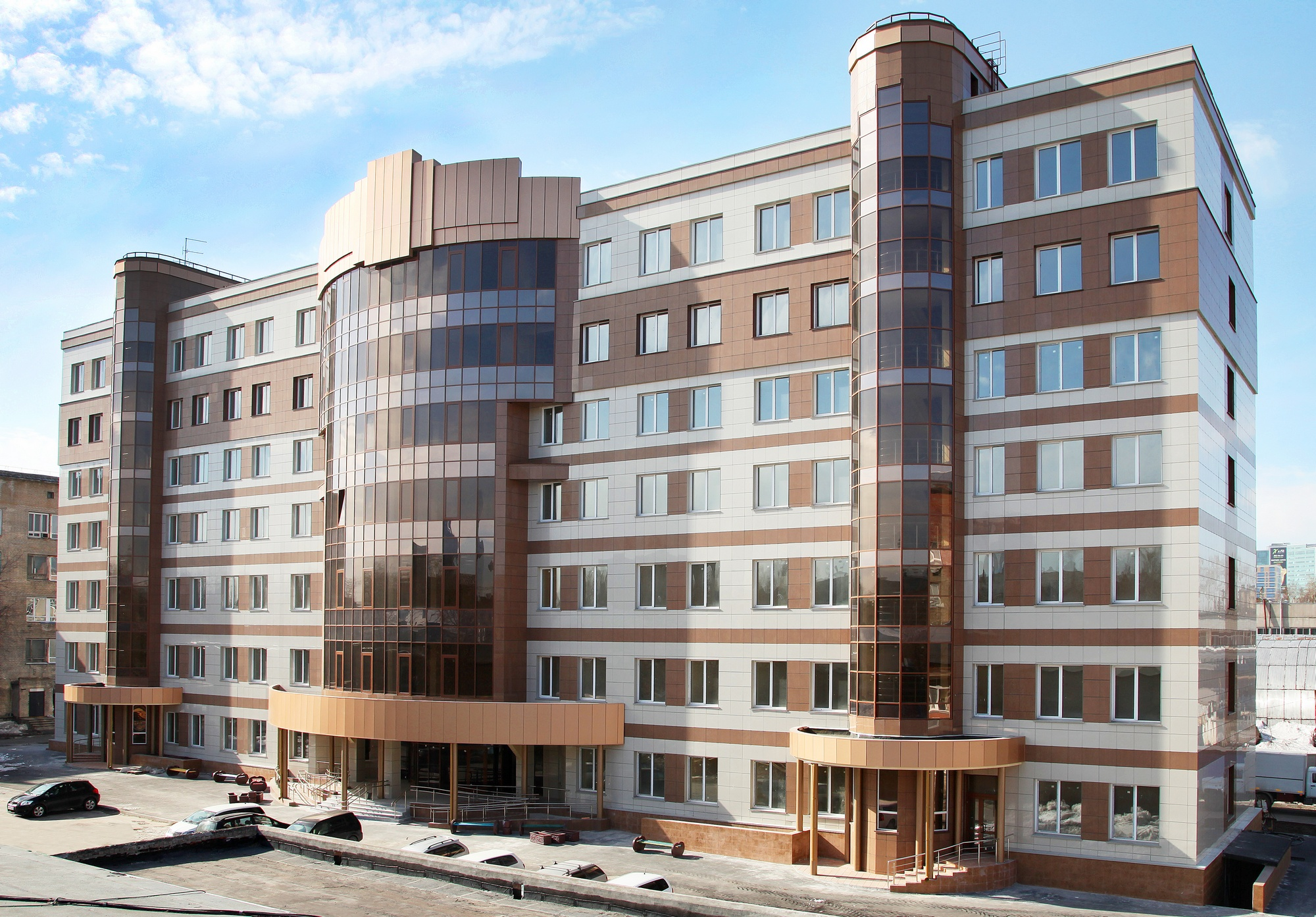 NSTU 8 corps НГТУ 8-ой корпус